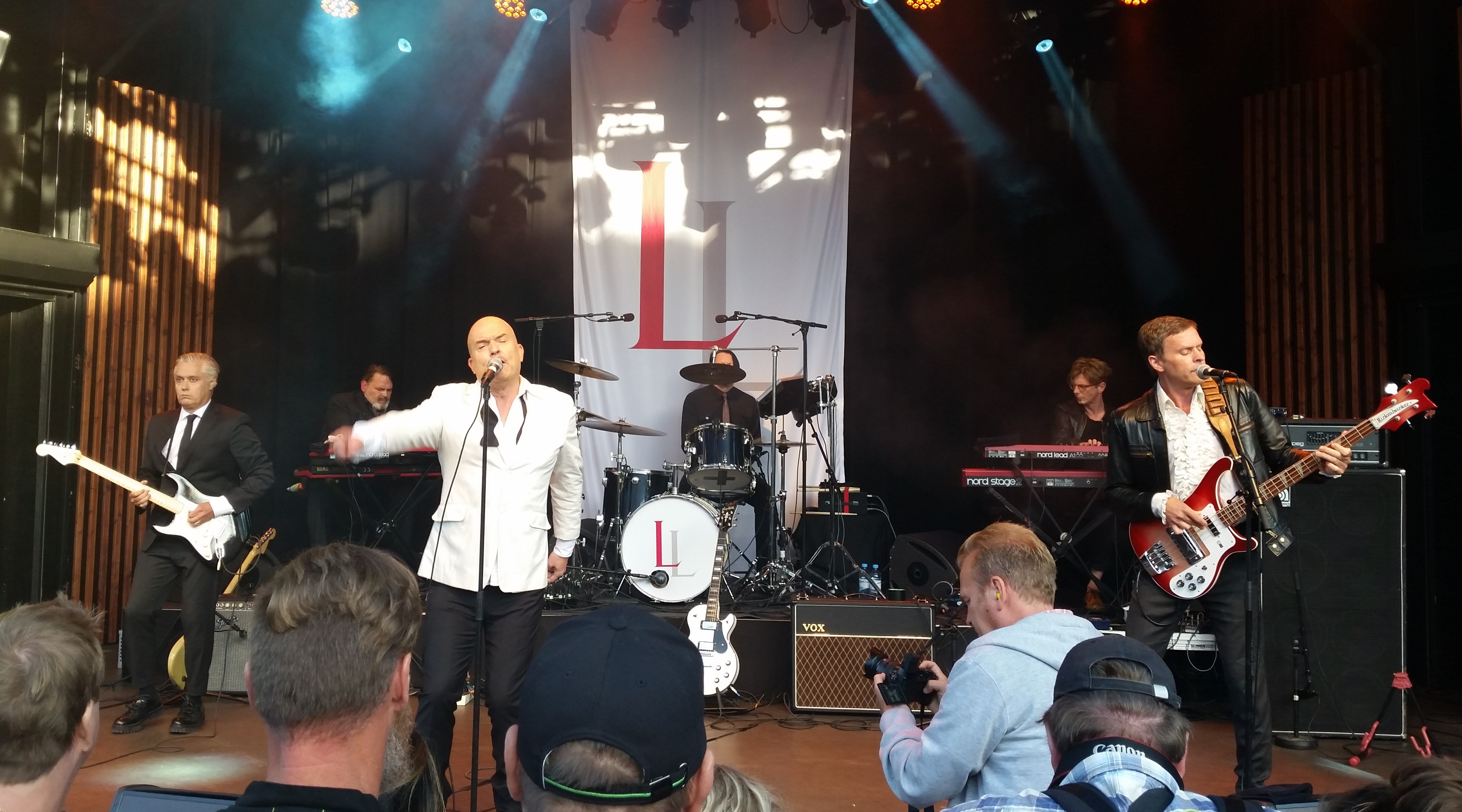 Swedish New Wave / New Romantic group Lustans Lakejer / Vanity Fair